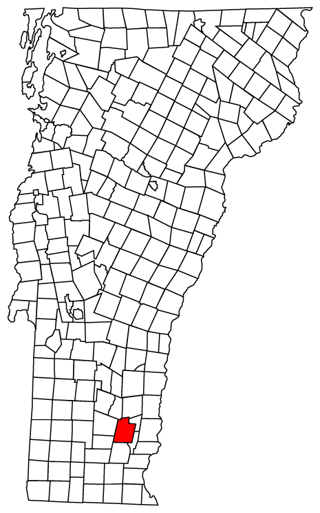 Description: Map of Vermont towns with Townshend highlighted Source: Map created by Jared C. Benedict on 26 March 2004. Copyright: © Jared C. Benedict.